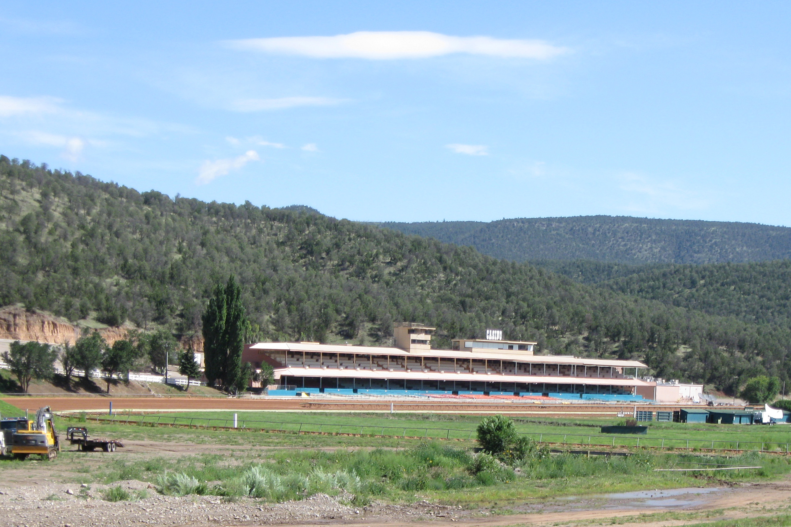 Billy the Kid Casino and Ruidoso Downs Race Track, located at 1461 U.S Highway 70 West in Ruidoso Downs, New Mexico.